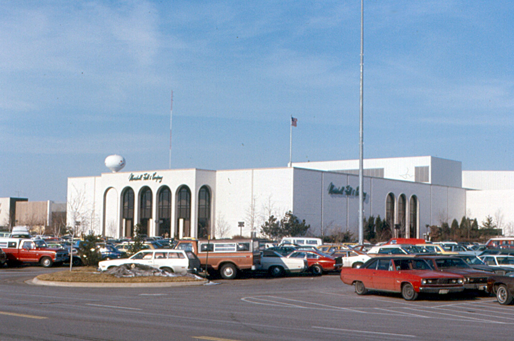 This branch of Marshall Field department store was opened at Cherryvale Mall in 1973. CherryVale is in the southwest part of Rockford (actually in the village of Cherry Valley). In many ways, Cherryvale and the area around it became Rockford's new "downtown." This Marshall Field is in no way comparable to the State Street store in Chicago. Marshall Field has been taken over by Macy's and renamed. I have heard that is is now even less distinctive. Marshall Field was Rockford's best department store, but had a different order of style than Marshall Field's famous main store on State Street in downtown Chicago - a veritable temple of shopping. Peoria never had a Marshall Field. Anyway, it is now all Macy's. :-(